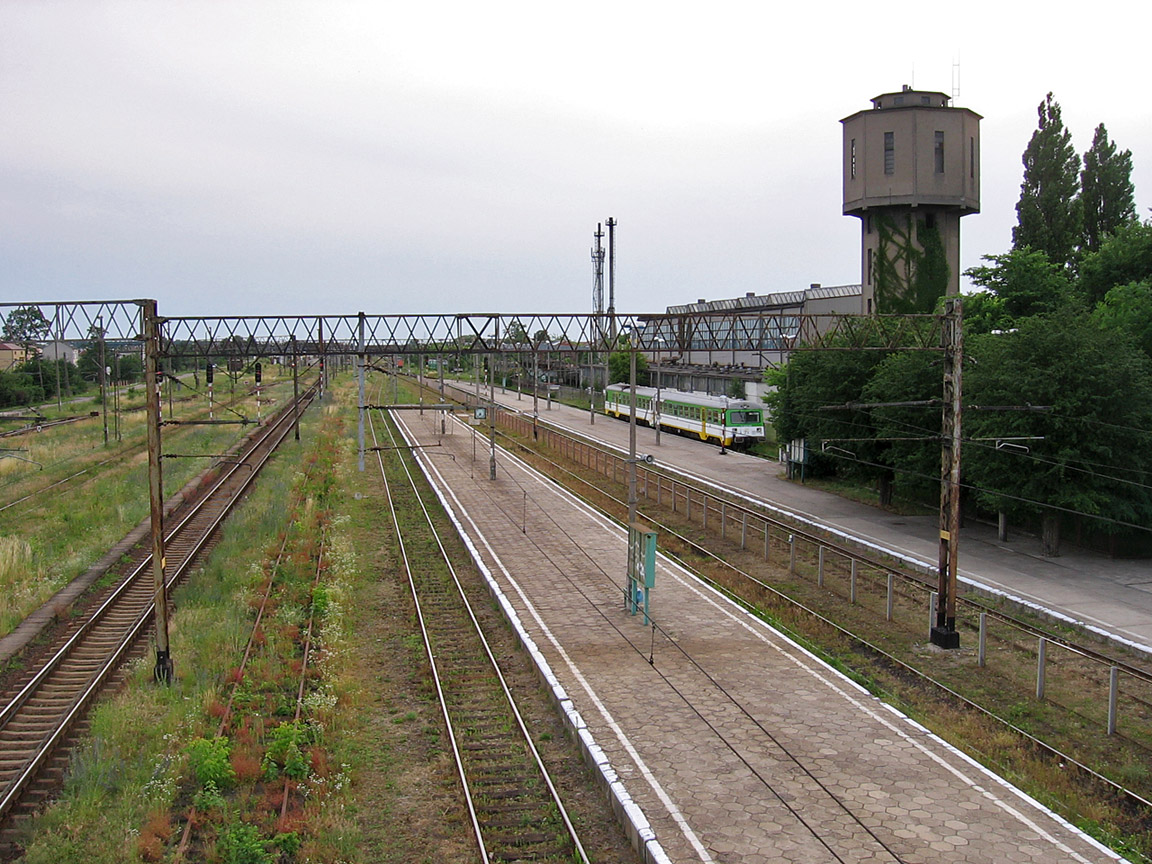 City of Ostroleka (Poland), the railway station.